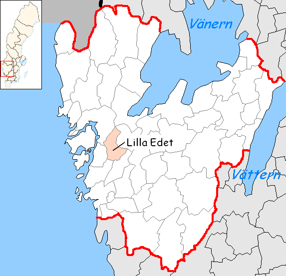 Lilla Edet Municipality in Västra Götaland County Designed by me. Mere outlines are a PD source from